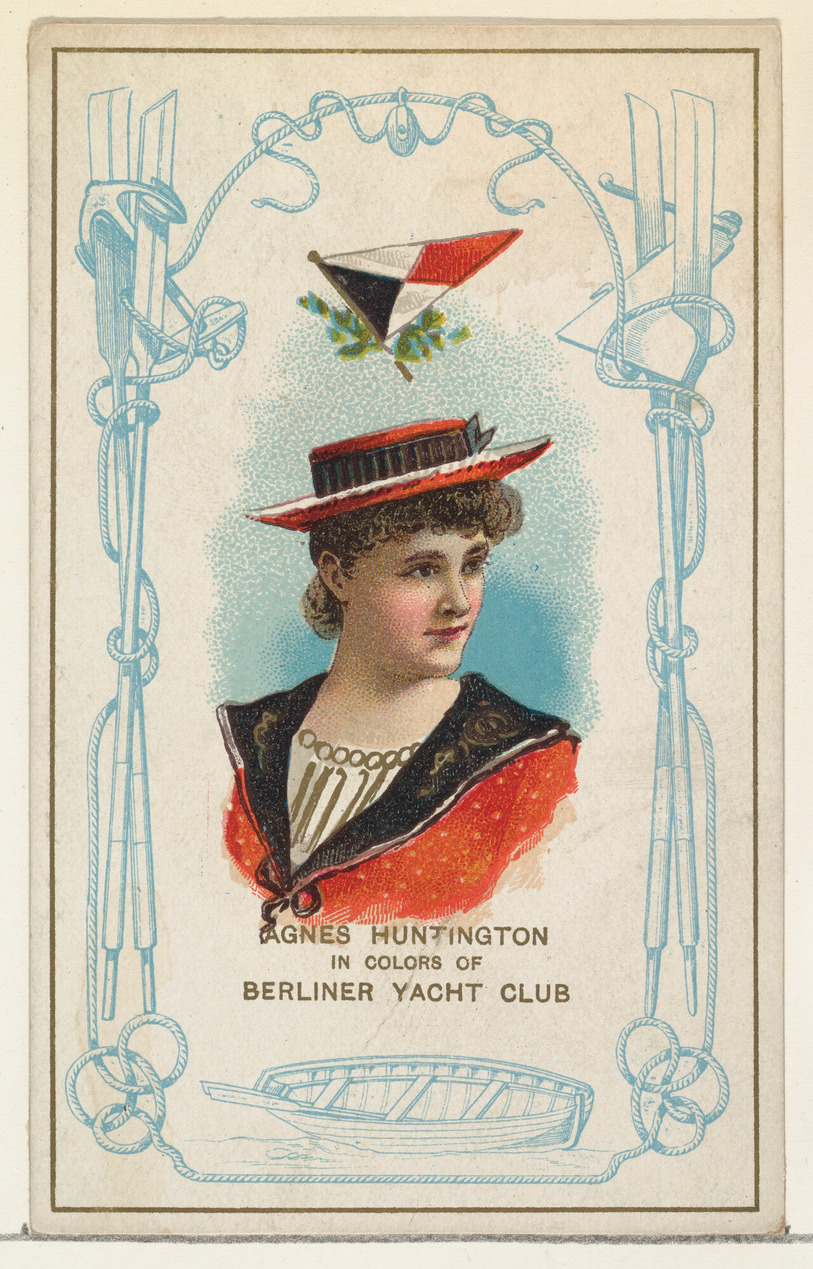 Print; Prints